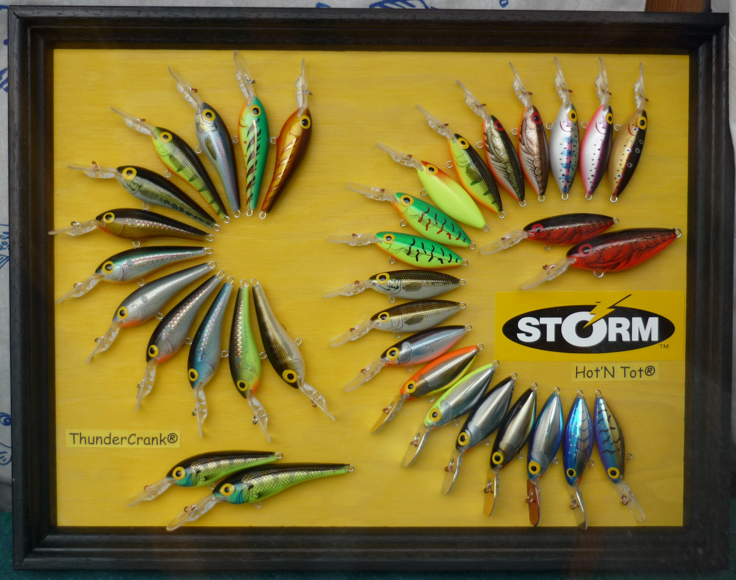 Fishing lures manufactured by Rapala, Finland.